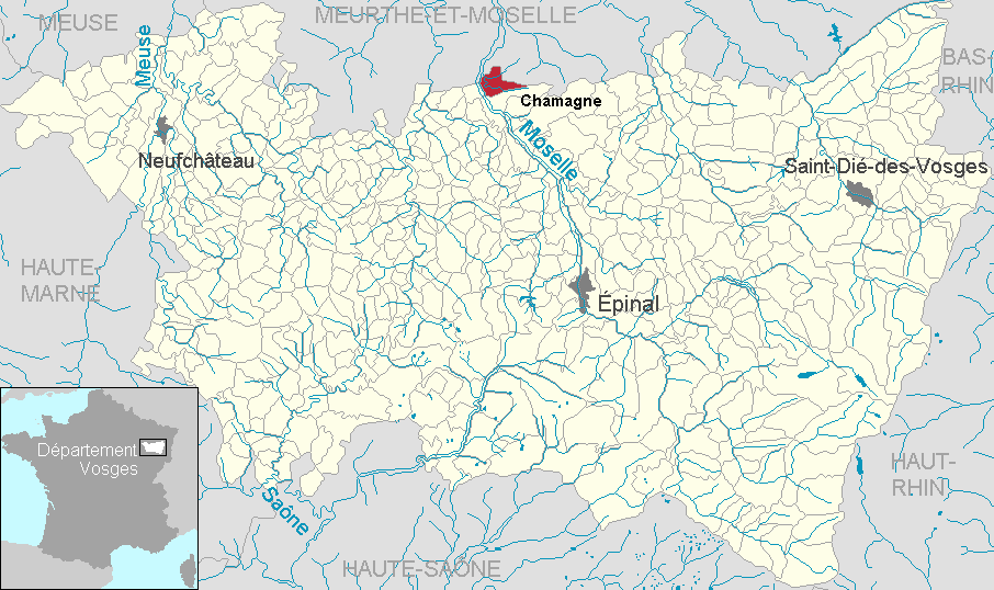 Chamagne in the department of Vosges, Lorraine, France